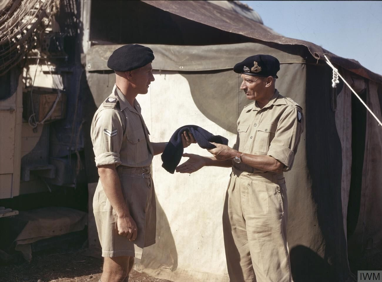 General Bernard Montgomery, Commander of the Eighth Army, Italy, 30 September 1943 General Montgomery is handed a scarf by his batman, Corporal W English, in camp at Eighth Army Headquarters in Italy. Corporal English, from Erith, has been the General's batman since Alamein.